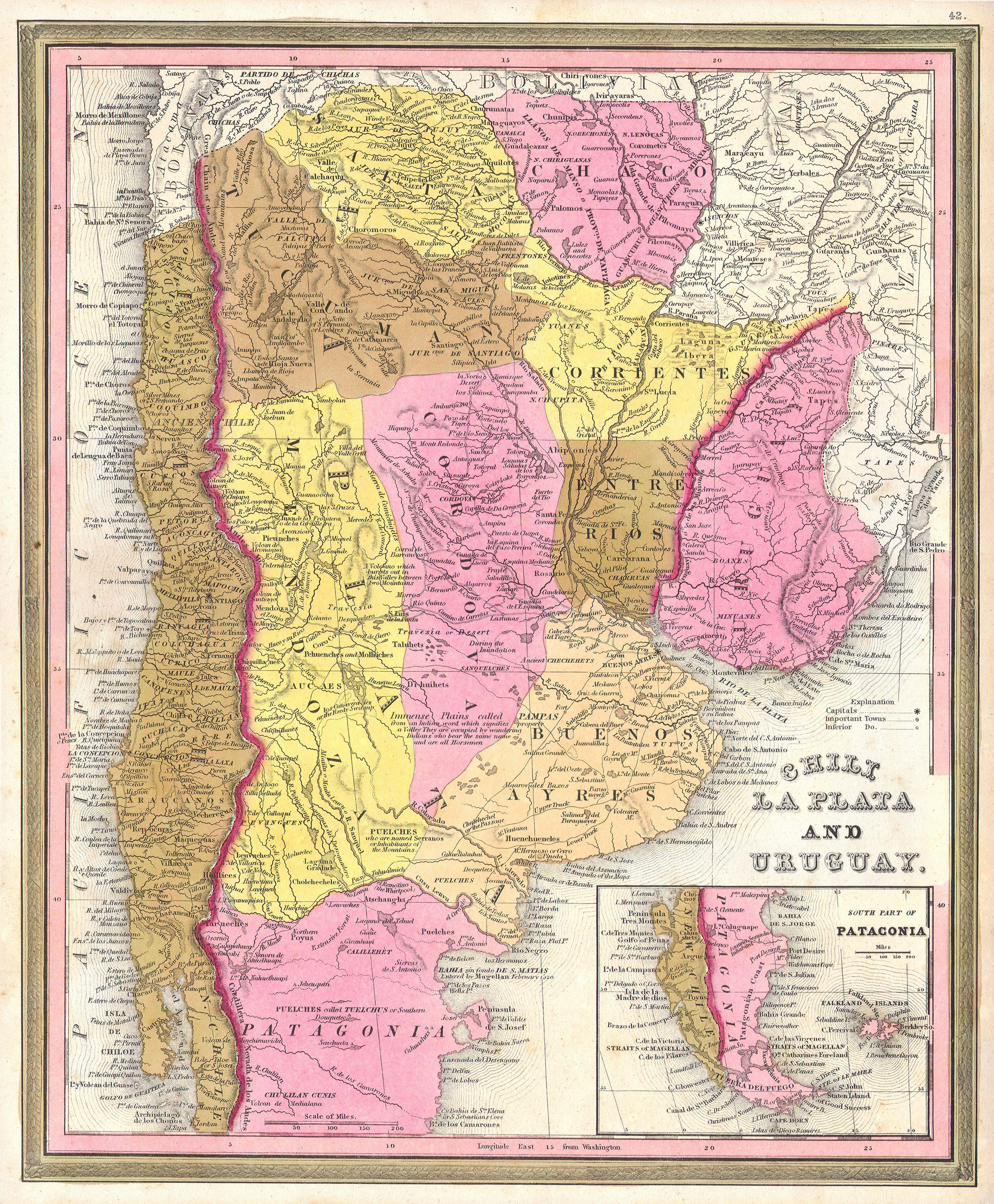 This scarce hand colored map is a lithographic engraving of Chili, La Plata and Uruguay, dating to 1846 by the legendary American Mapmaker S.A. Mitchell, the elder. Mostly depicts modern day Argentina. There is an inset of Patagonia and Tierra del Fuego on the bottom right. There is no engraver listed, but this is most likely a Burroughs map. H. N. Burroughs is a mysterious transitional engraver, whose work for the Mitchell firm appears in 1846 between that of H.S. Tanner and Mitchell himself. Ristow notes, Nothing is known about Burroughs, but he was undoubtedly an employee or associate of Mitchell. His fine and detailed work appears only in certain hard to find mid 1840s editions of the Mitchell’s Atlas.